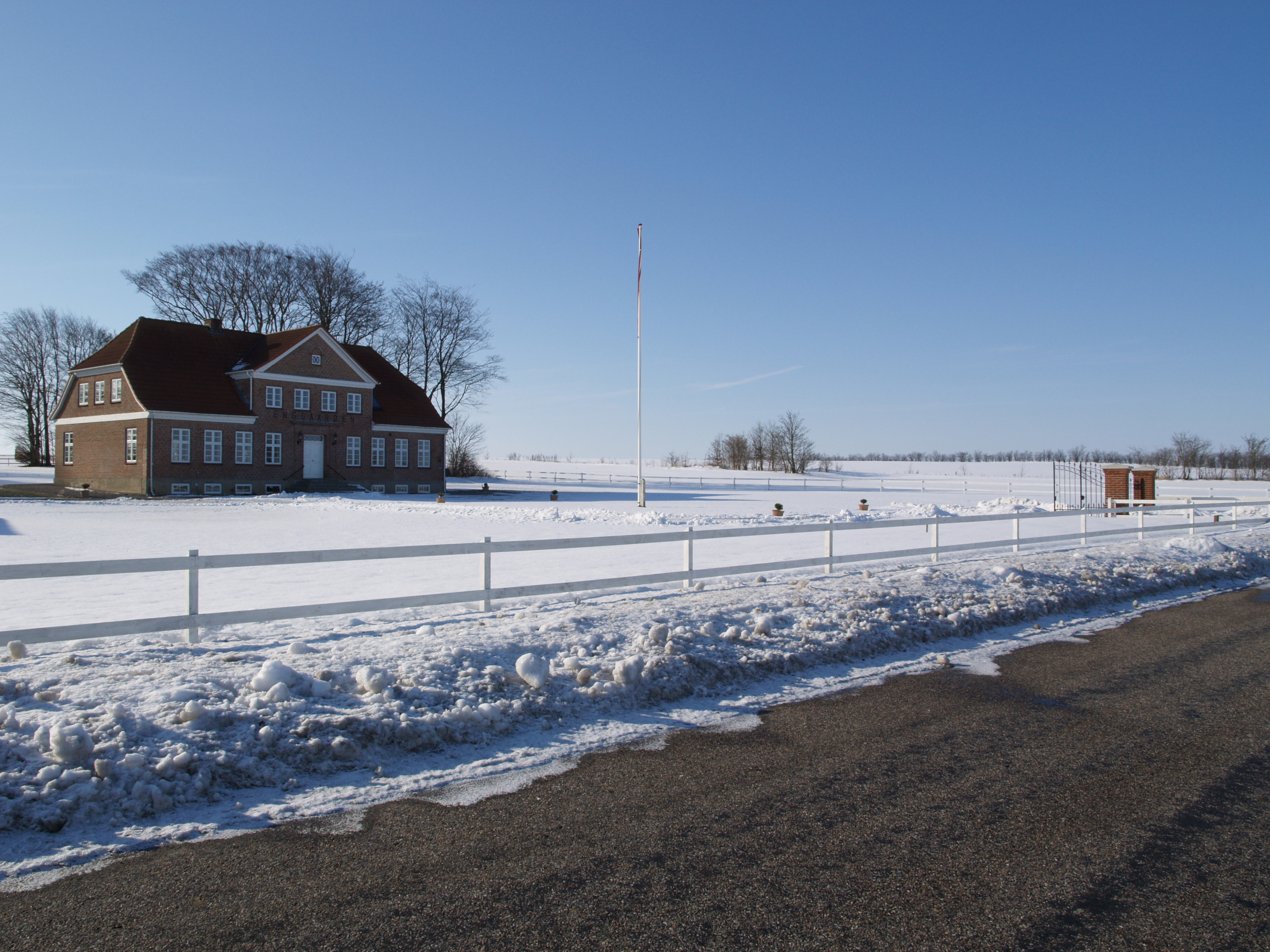 Photo no. 2, The mansion, Enggaarden (Enggården), Stenderup, Toftlund